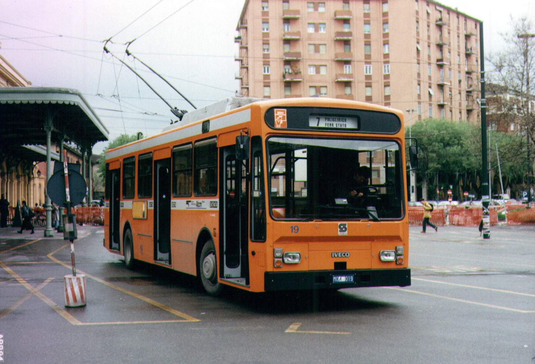 Modena trolleybus 19, built in 1986 by Socimi (on an IVECO chassis), at the main railway station (Stazione FS) in 1994. It is in service on route 7 to Policlinico.